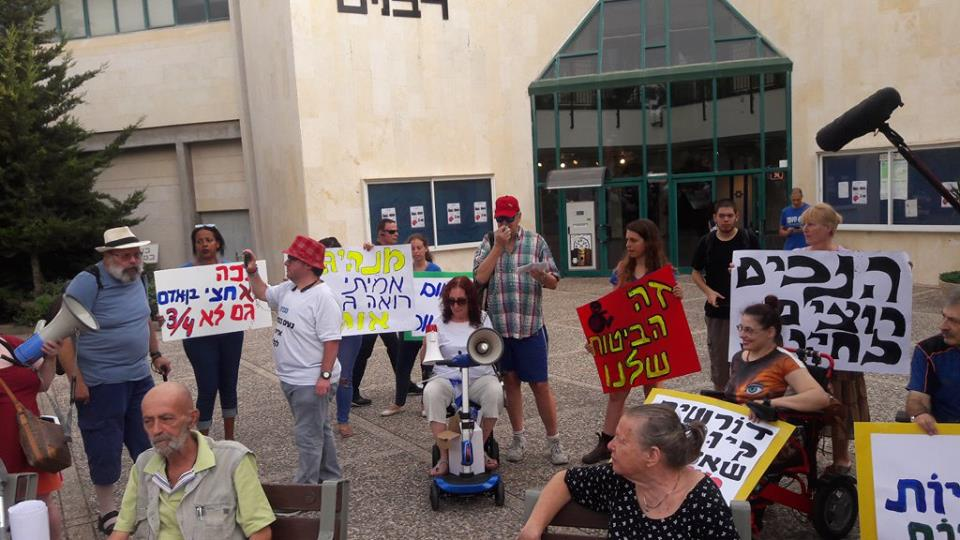 A protest vigil of the disabled people of Israel, near the house of Moshe Kahlon in Haifa, July 2017.